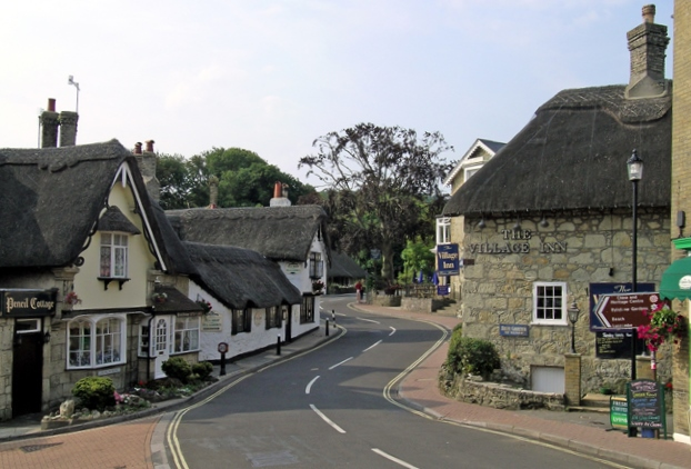 Shanklin Old Village. A short walk from Shanklin Chine is the old village - full of shops...mainly for tourists!